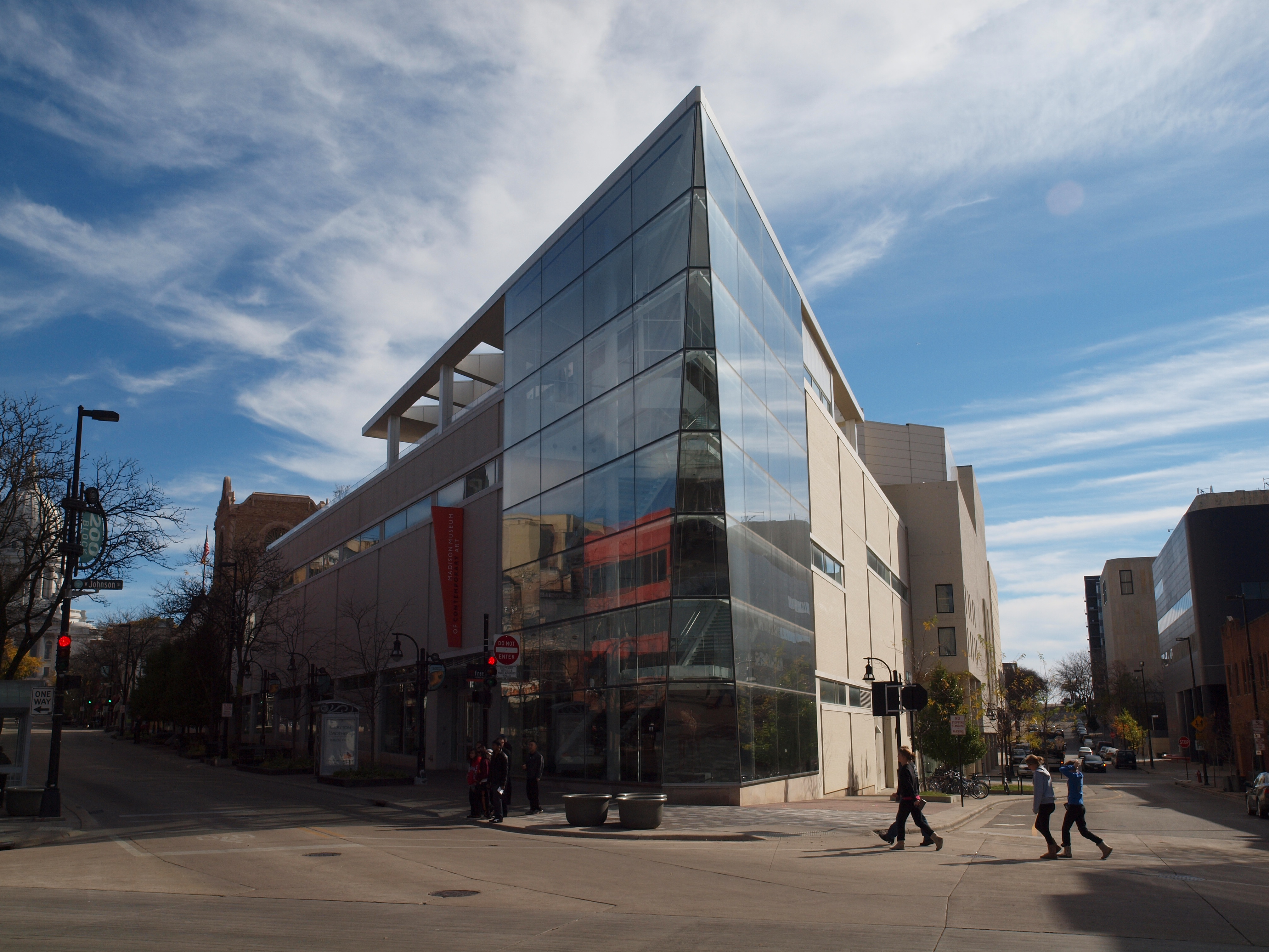 MMOCA - Madison Museum of Contemporary Art Madison, WI ____________________________ MMOCA MMOCA on Wikipedia